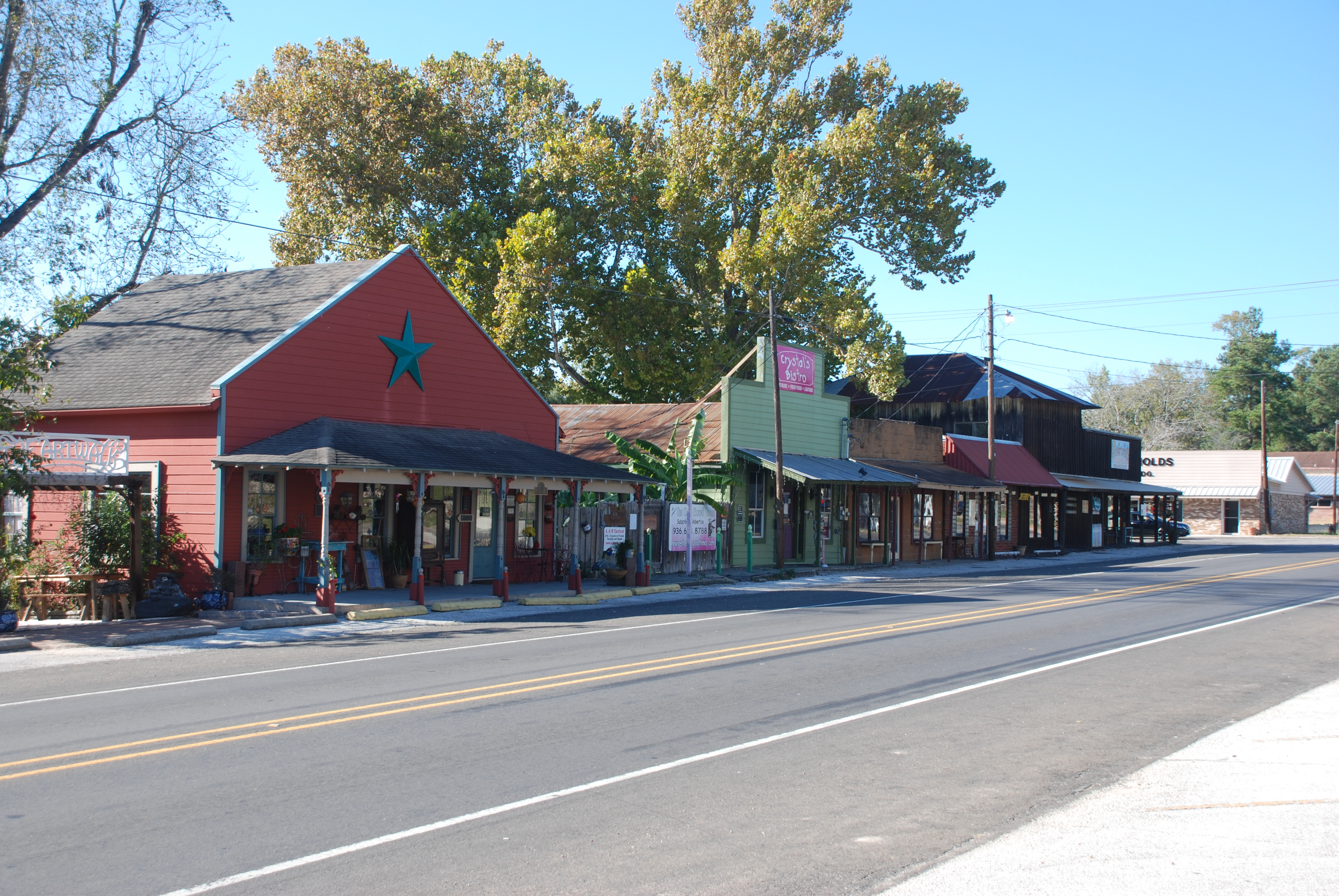 Houses along Church Street (Coldspring, Texas, USA)